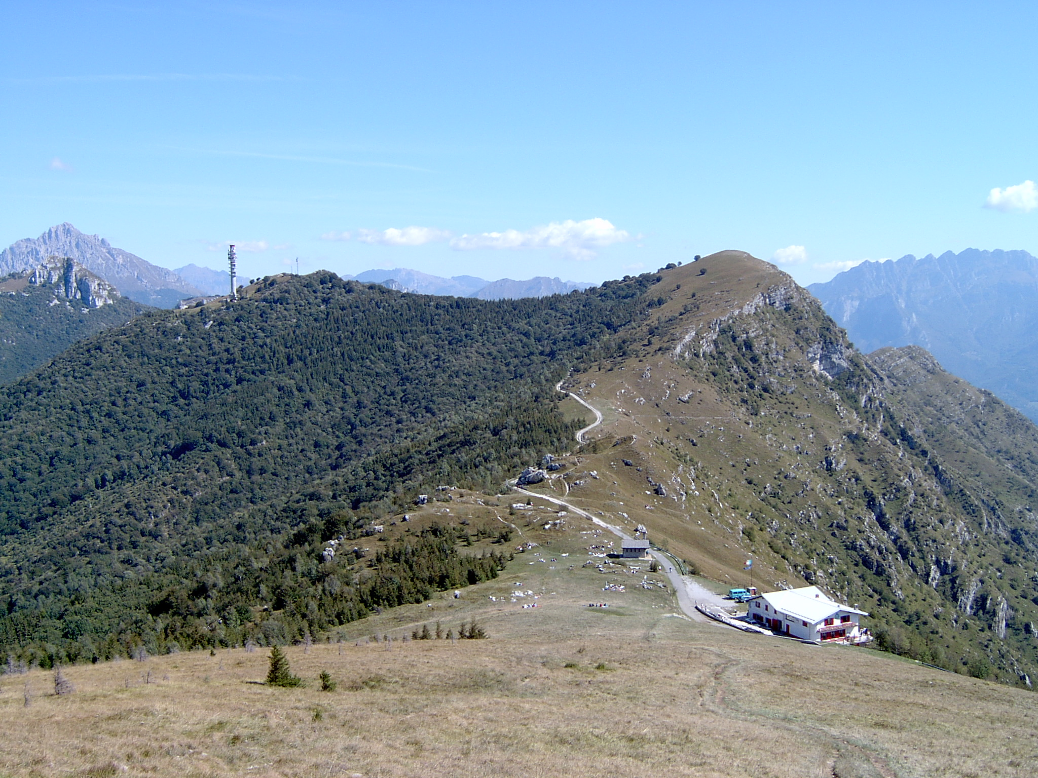 View of Cornizzolo from Monte Pesora (1195 m).